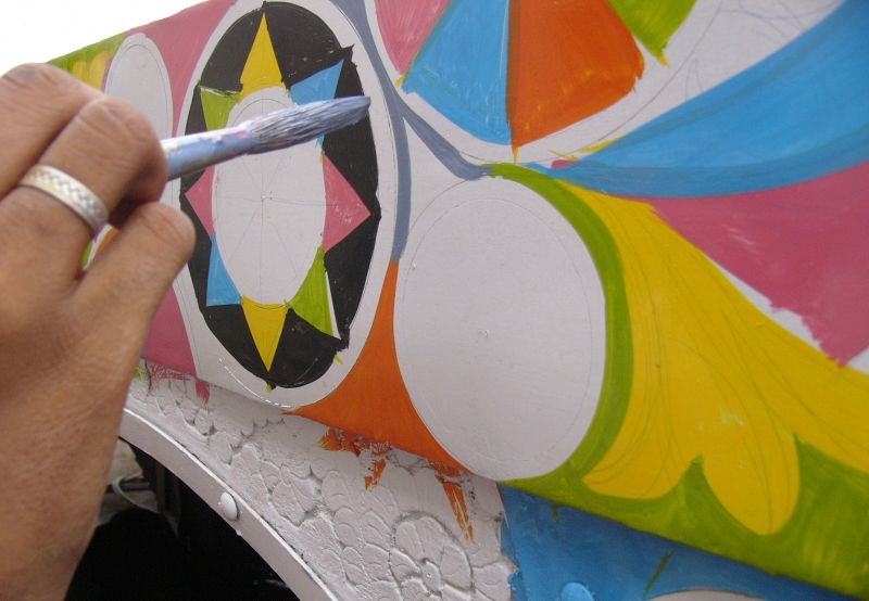 Pakistani Truck Art